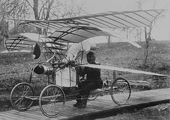 C. R. Nyberg´s experimental aircraft Flugan 1902, Lidingö, Sweden